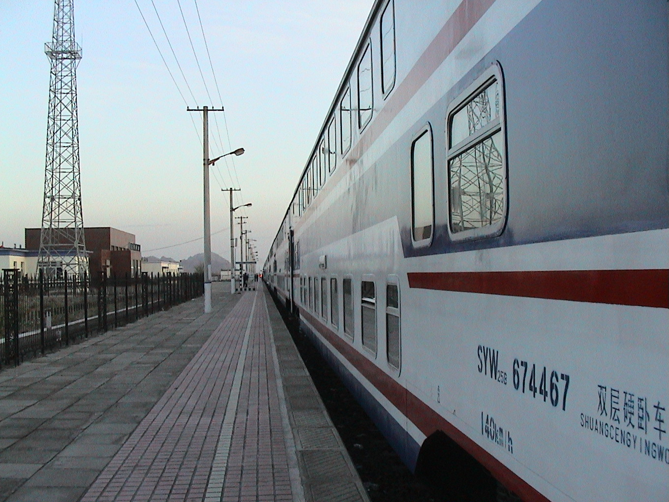 A railroad passenger car of China. This image was taken by User:Yaohua2000 at 2006-04-25 23:59:54 UTC. 5801次双层普通普快列车，乌鲁木齐—阿拉山口，北京时间2006年04月26日07时59分54秒摄于博乐车站。